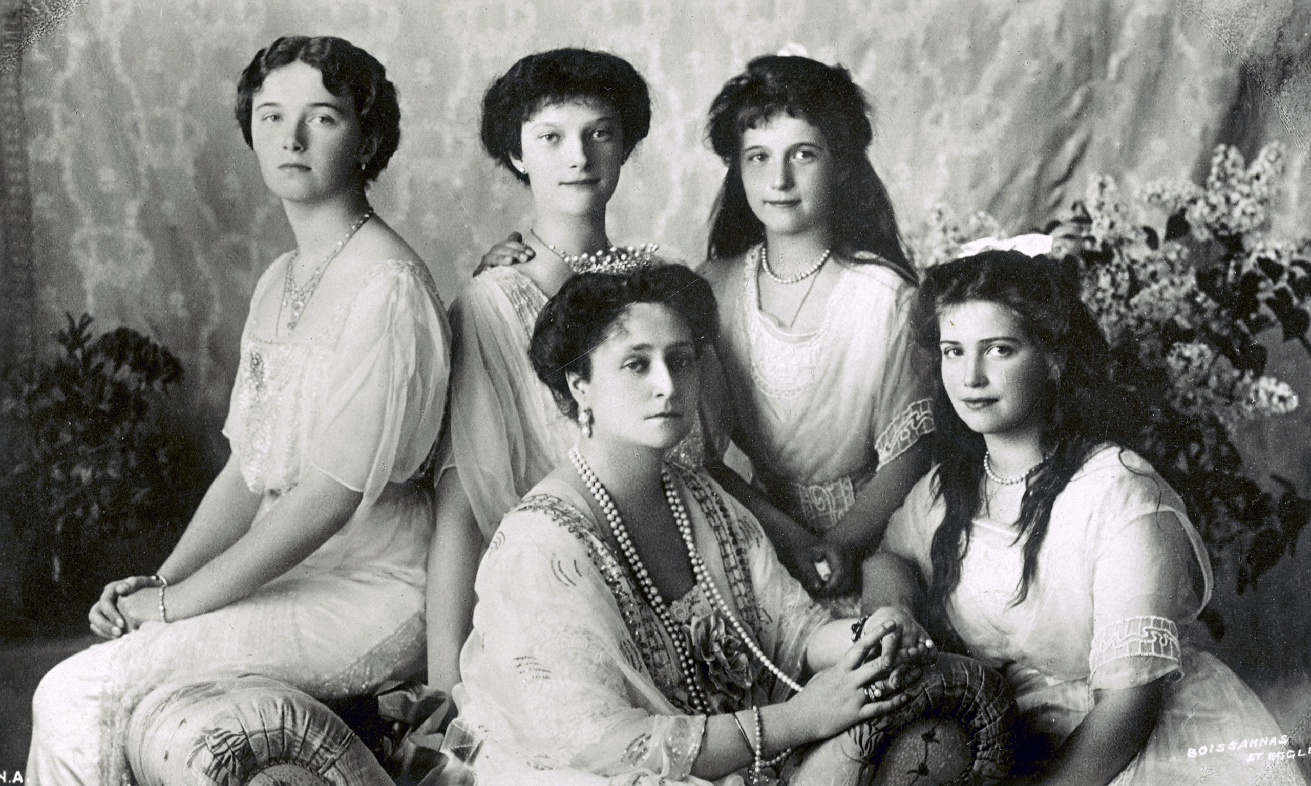 Family of Nicholas II of Russia